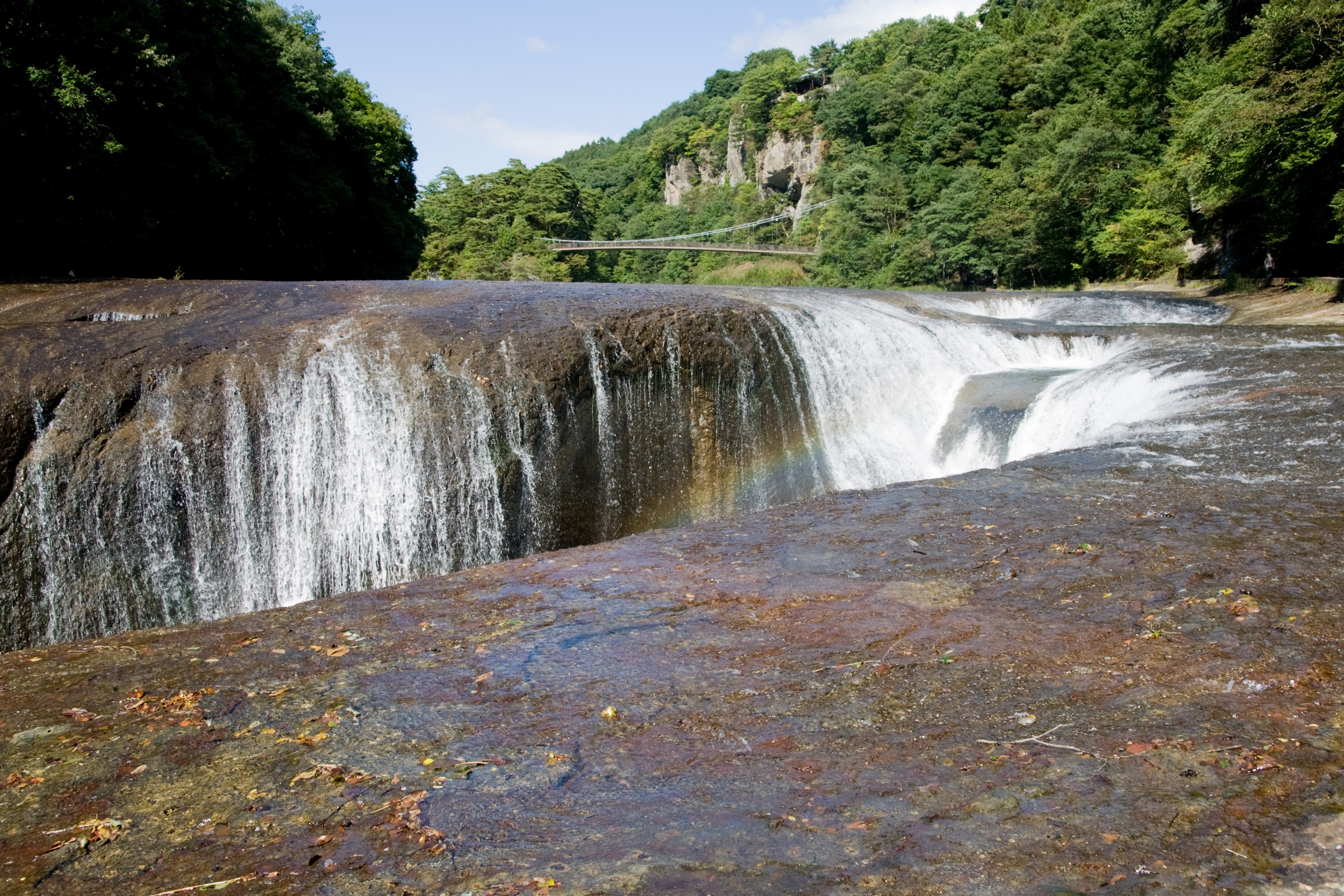 Fukiware falls (Fukiware-no-taki 吹割の滝) in Numata City, Gunma Pref., Japan.